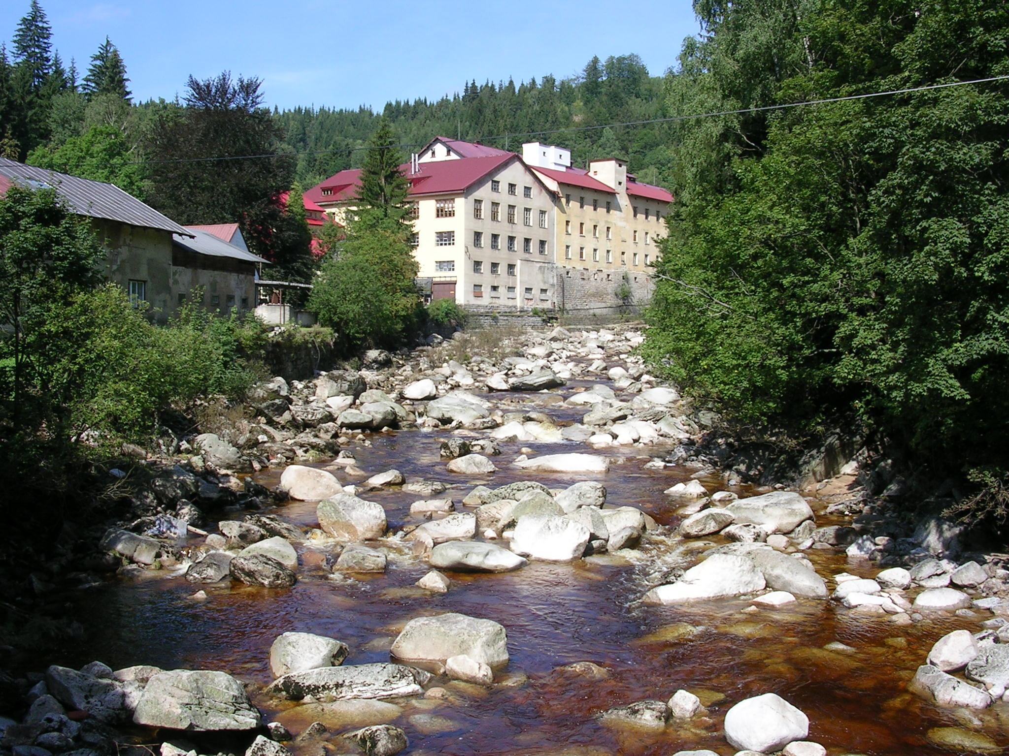 Kořenov-Dolní Kořenov, Jablonec nad Nisou District, Liberec Region. Jizera River.